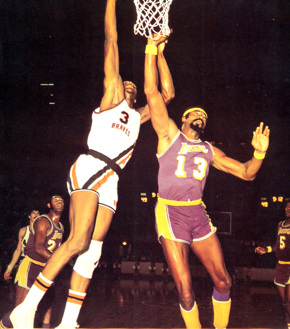 Professional basketball players Elmore Smith (left) and Wilt Chamberlain (right)